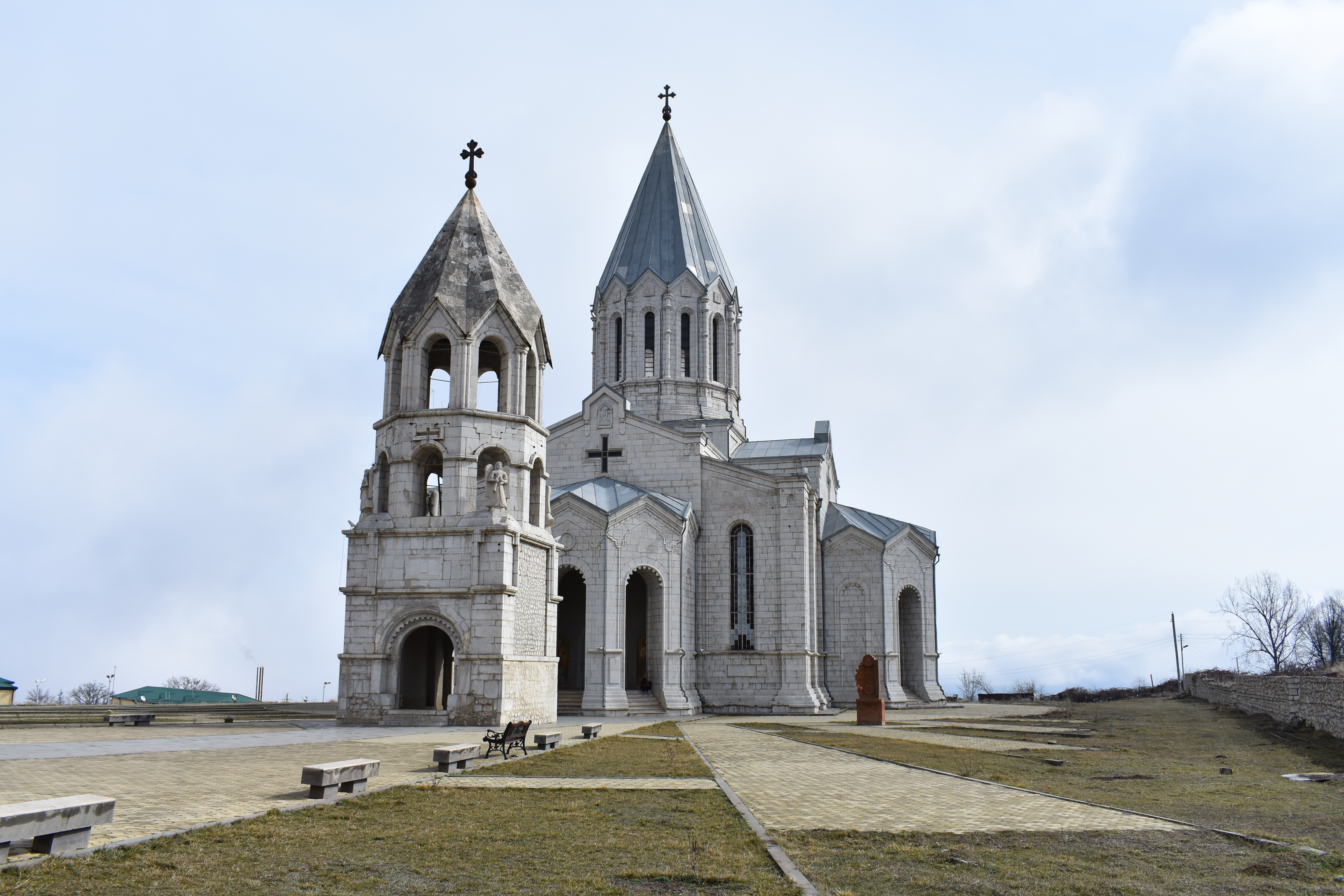 Ghazanchetsots Cathedral